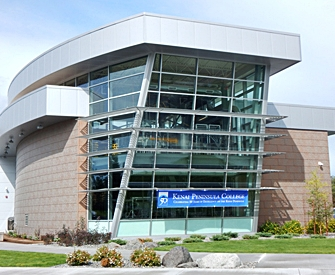 Kenai Peninsula College in Soldotna, Alaska.